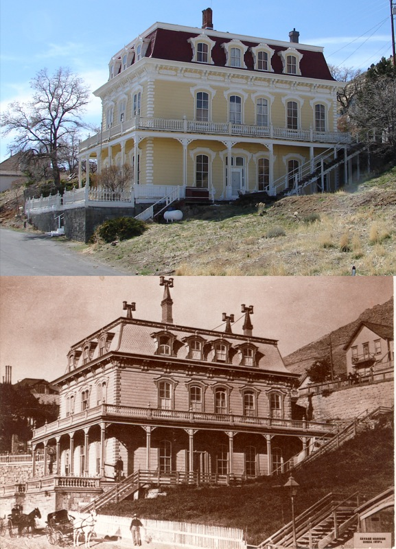 The Savage Mine owners mansion on C Street in Virginia City, Nevada. Bottom photo circa 1870. Note the unusual tops to the chimneys in the old photo- undoubtedly a strategy to thwart the "Washoe Zephyr"- the high winds that can whip across the ridges. It is great that all the owners of this building have kept it in good repair and original!